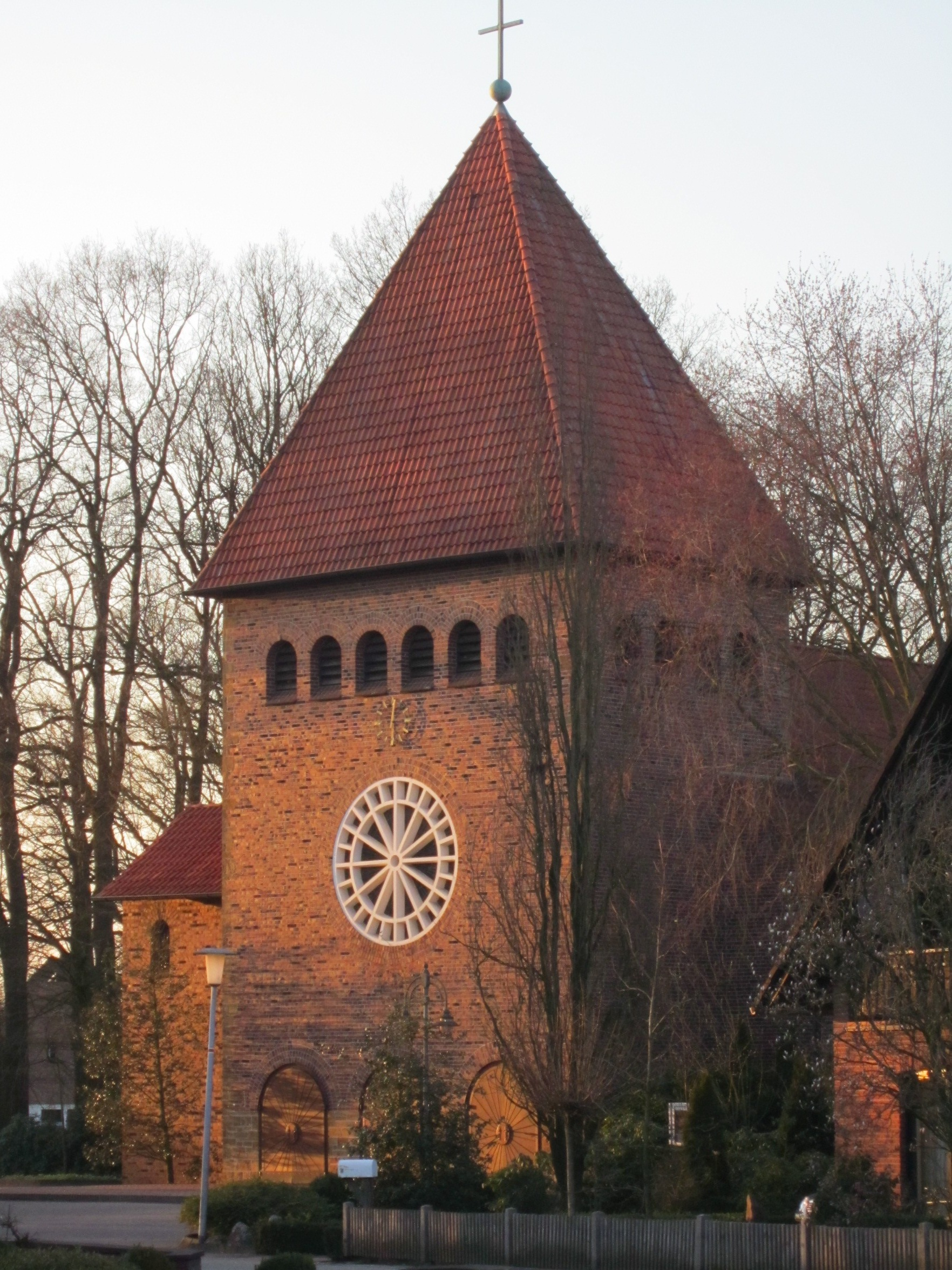 St. Maria Goretti church in Brockdorf (Lohne, Lower Saxony)